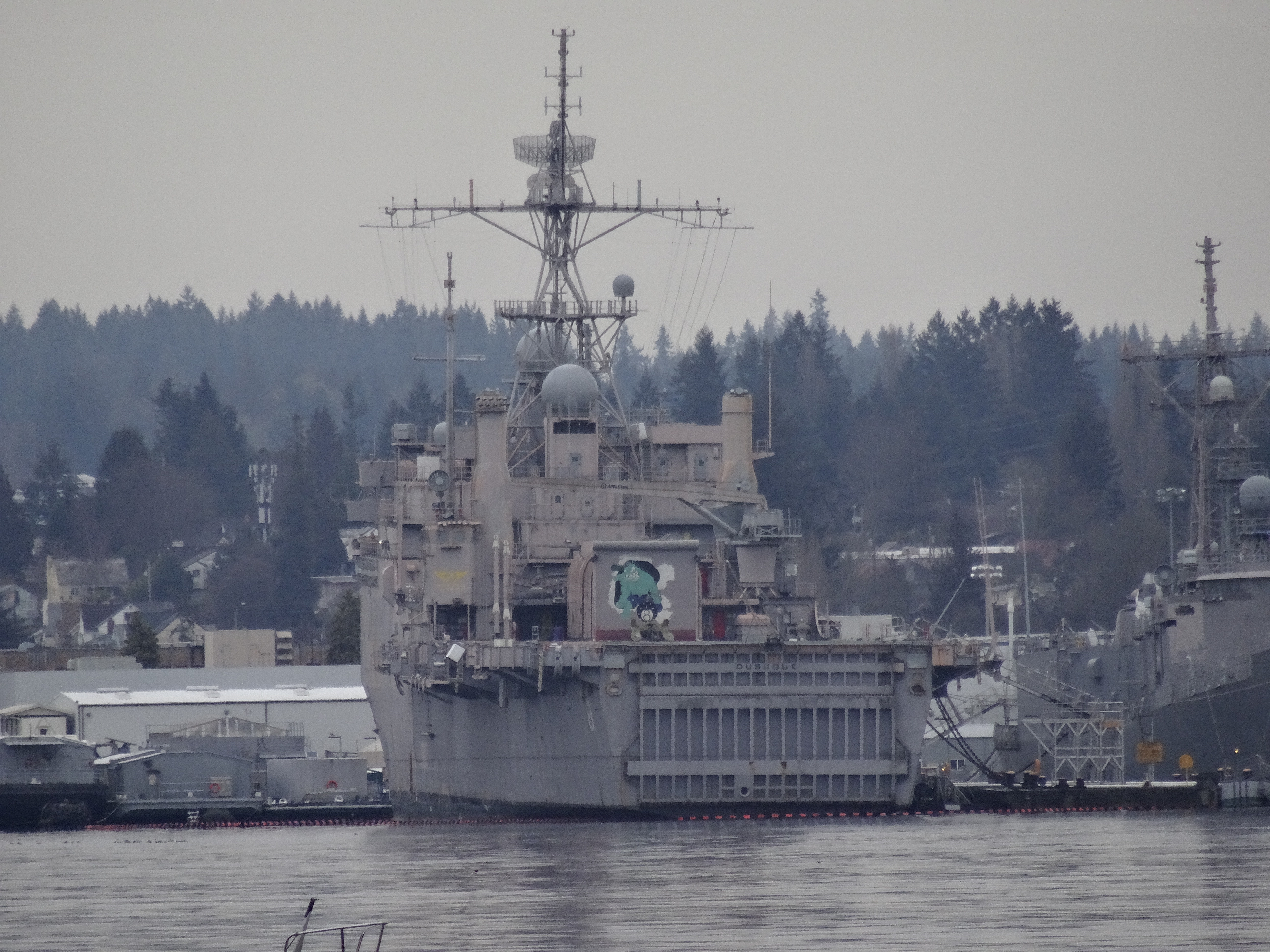 Picture of USS Dubuque (LPD-8) at Puget Sound Naval Shipyard 2.2017